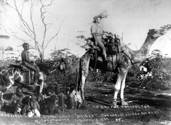 A.P. Brophy prospector, the well known riding camel 'misery', the world's record 600 miles without water, Coolgardie 1895